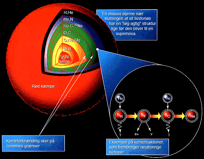 Nucleosynthesis in a star